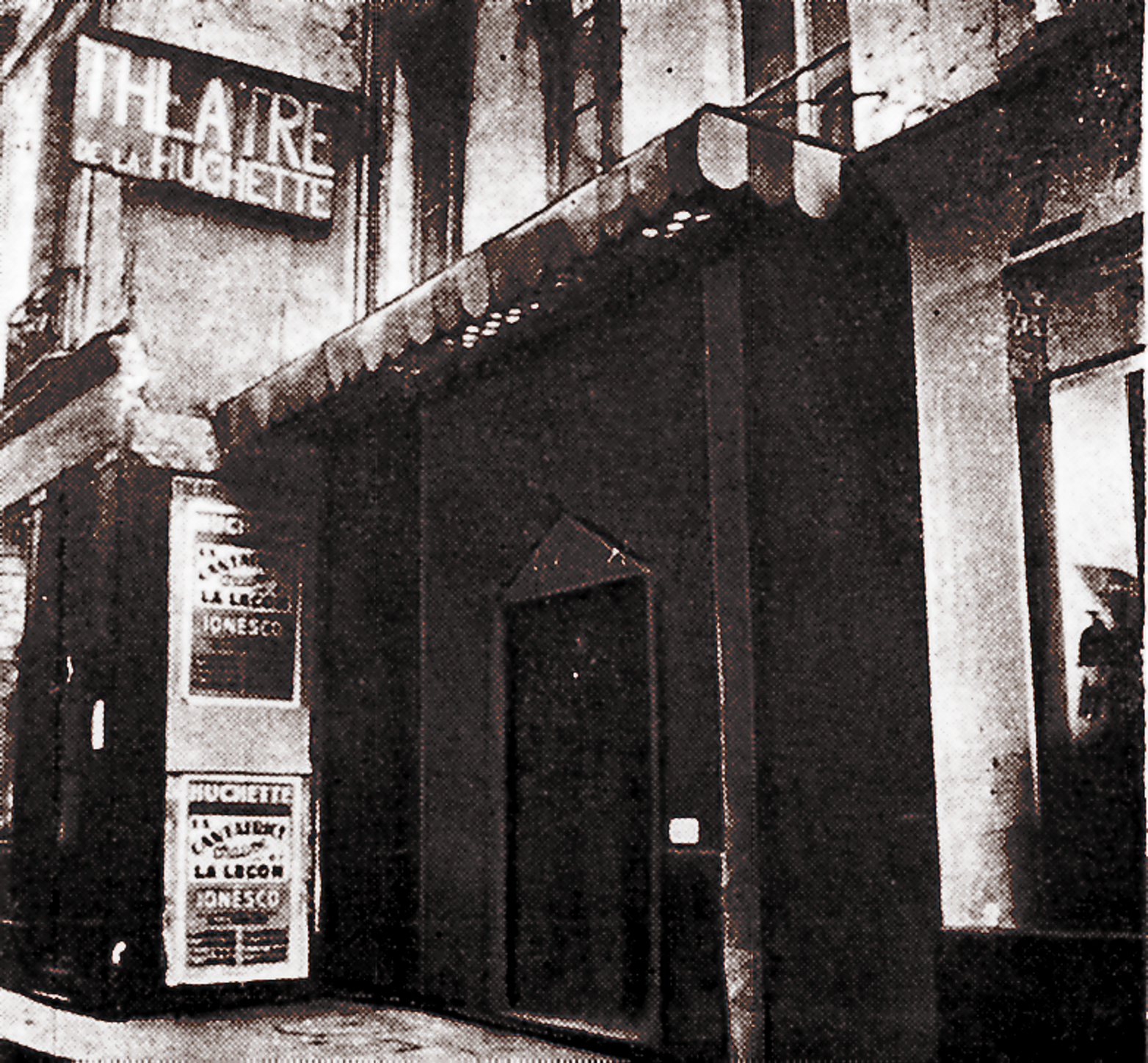 Theatre La Huchette.jpg